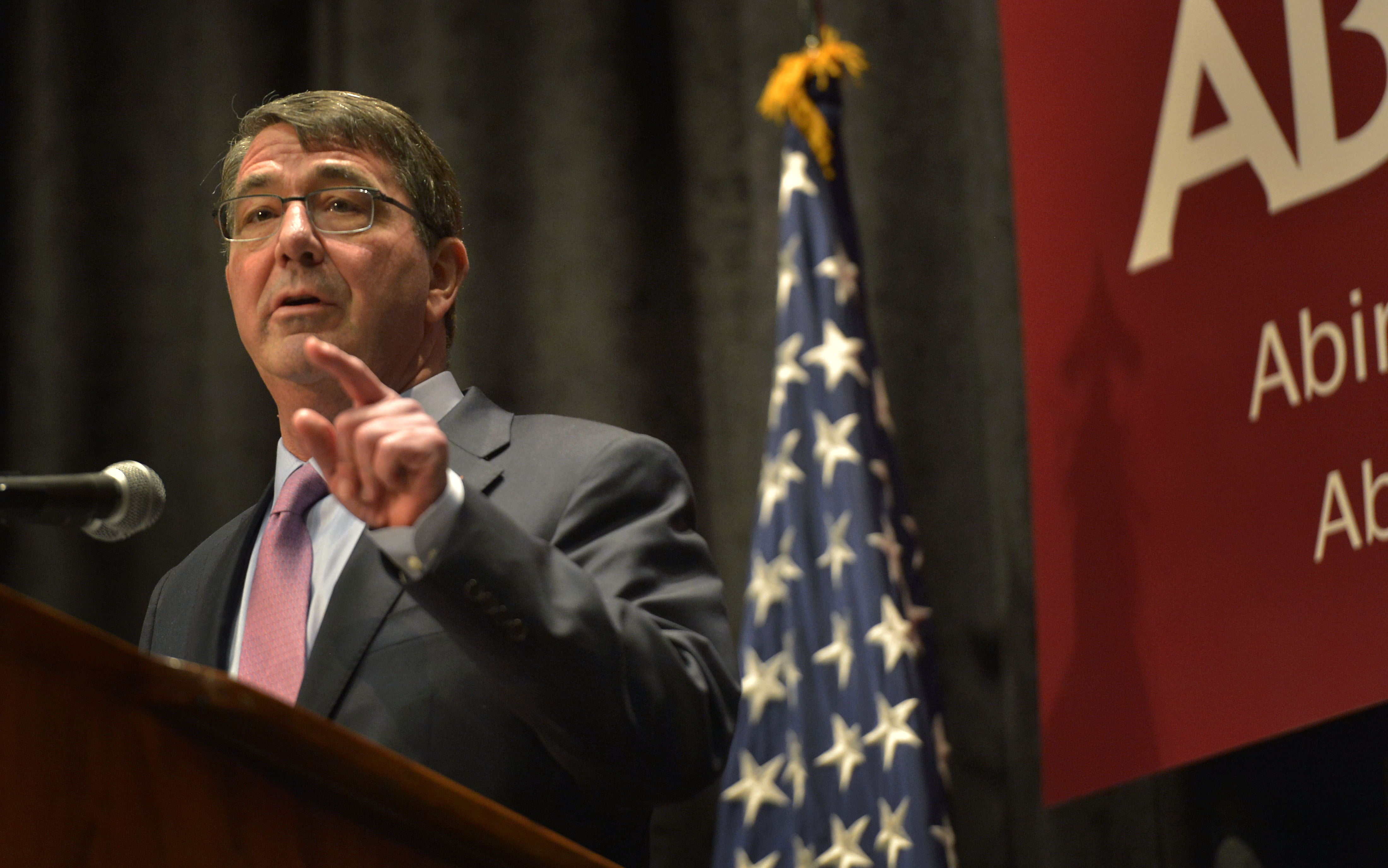 Defense Secretary Ash Carter delivers remarks to the student body of his alma mater Abington Senior High School in Abington, Pa., March 30, 2015. Secretary Carter kicked off his Force of the Future initiative at the school.